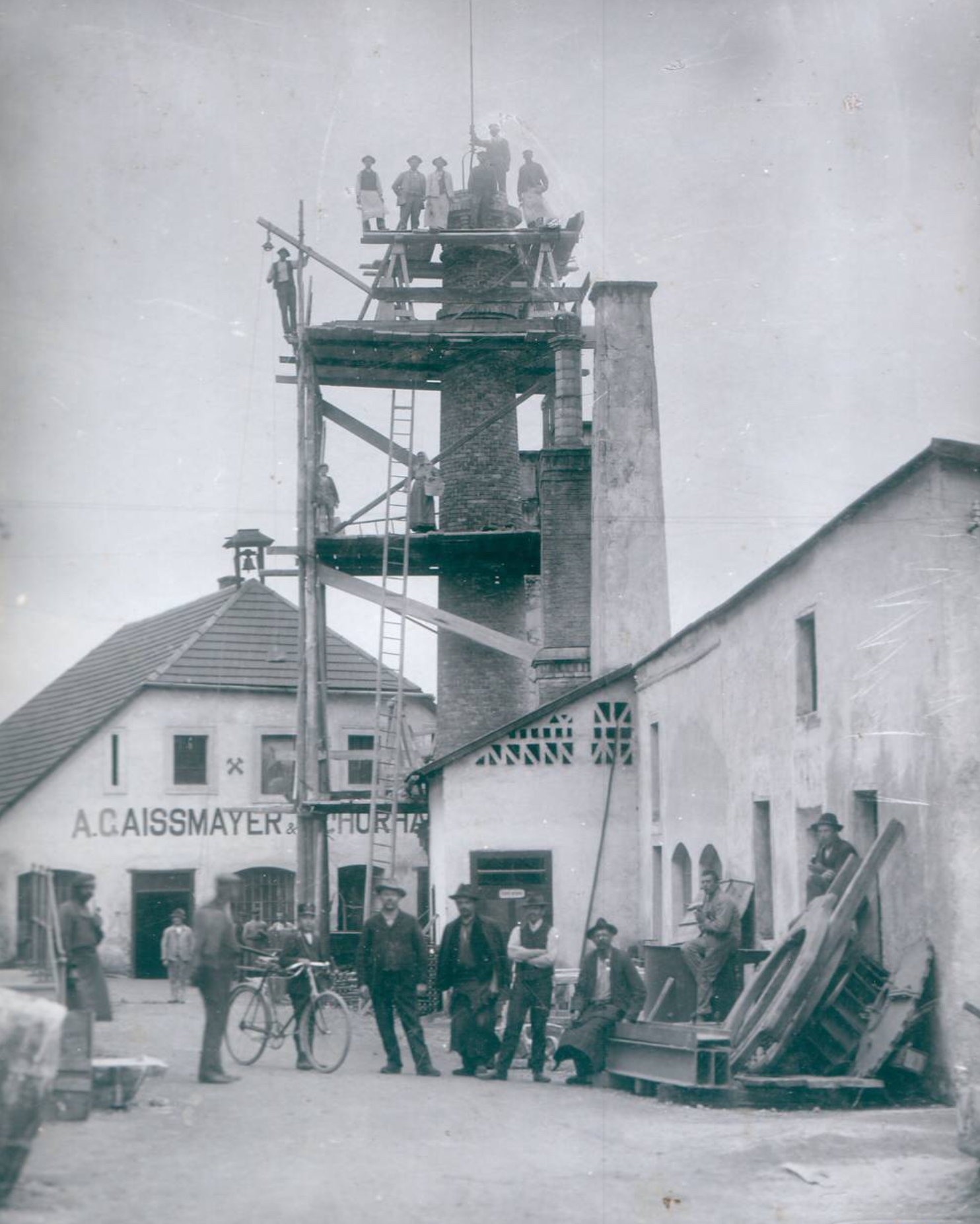 Gaissmayer und Schürhagl 1912